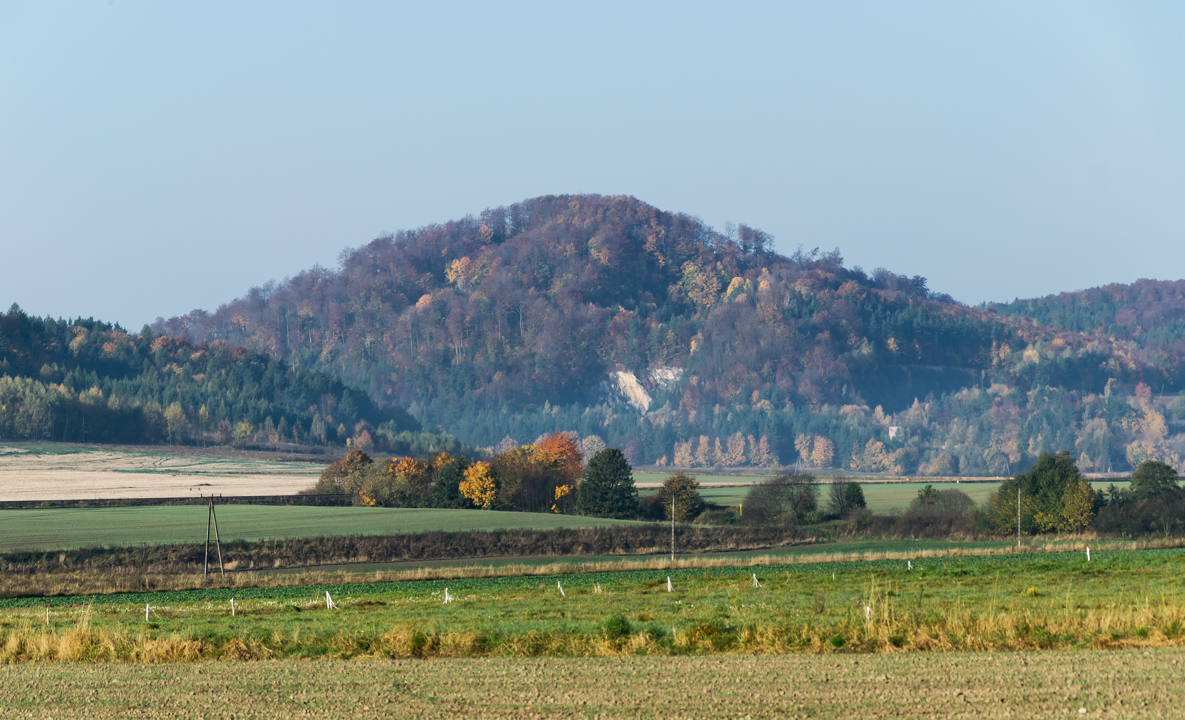 Wapniarka, Krowiarki, Sudetes